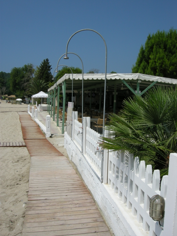 Beach showers in Valtos, Greece.